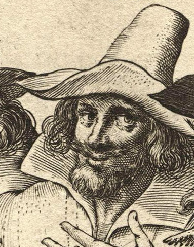 Detail from a contemporary engraving of the Gunpowder Plotters. The Dutch artist probably never actually saw or met any of the conspirators, but it has become a popular representation nonetheless.